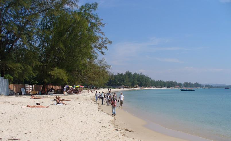 Kambodscha/Cambodia, Serendipity Beach bei Sihanoukville